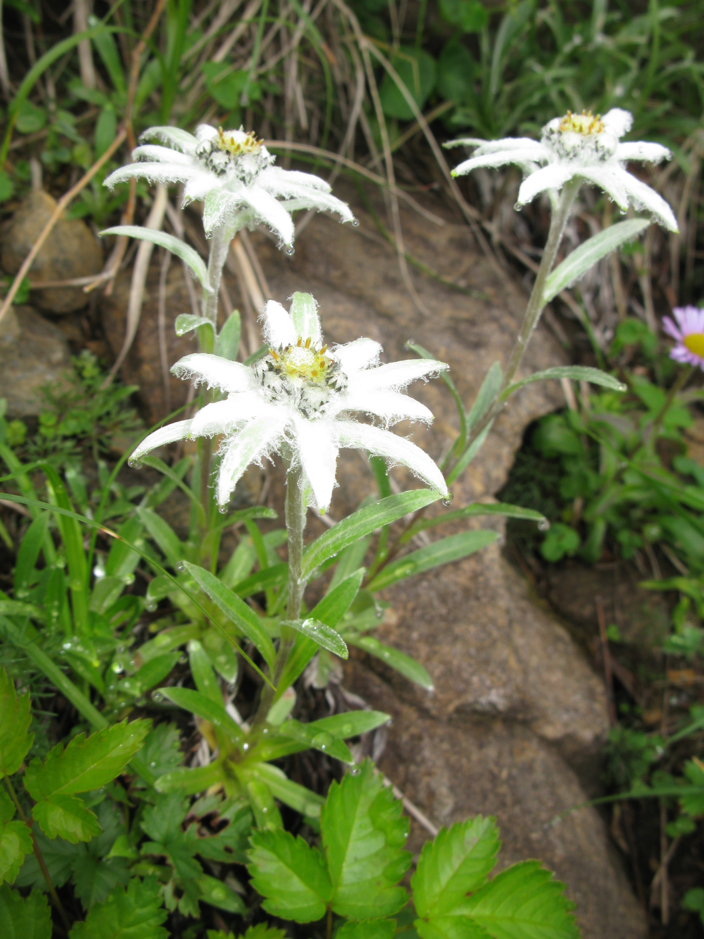 Leontopodium hayachinense, Mount Hayachine, Iwate pref., Japan